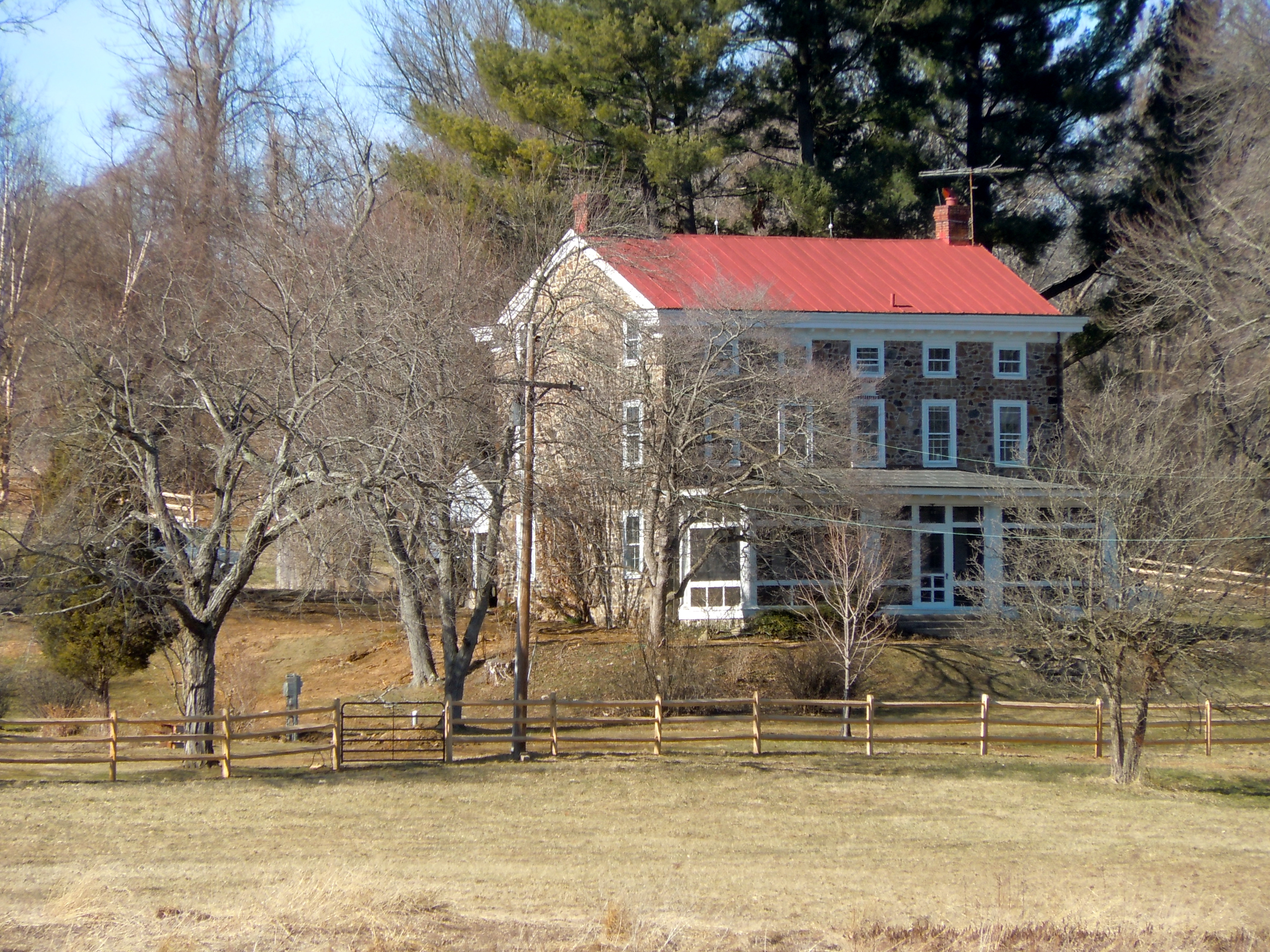 Fagley House on the NRHP since May 3, 1976. Located west of Phoenixville on Art School Road (at corner of Bryn Coed Road - go figure), in West Pikeland Township, Chester County, Pennsylvania.